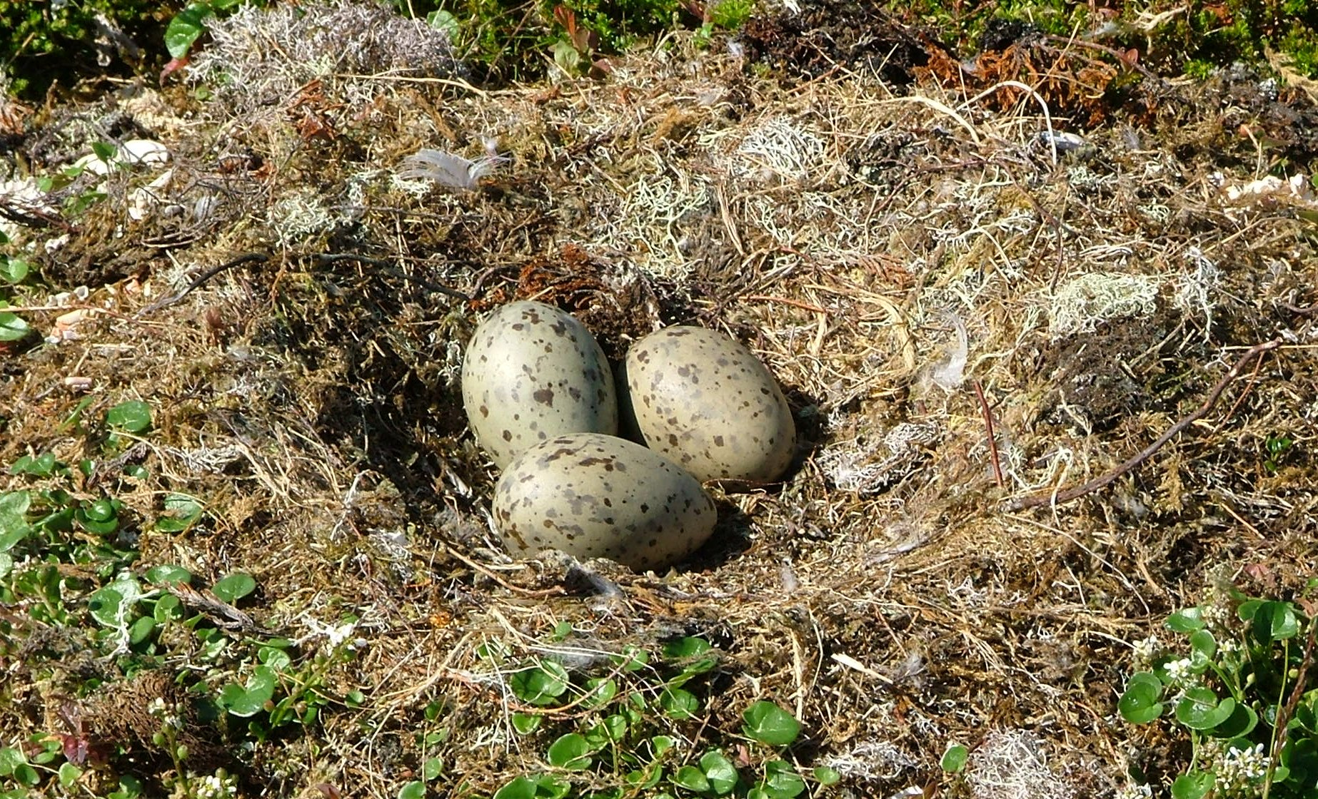 A Larus marinus nest on the top of little island with 3 eggs.